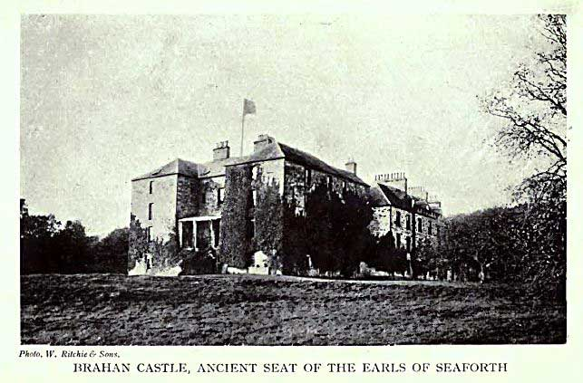 19th century photo of Brahan Castle, near Dingwall, Scotland. Now demolished